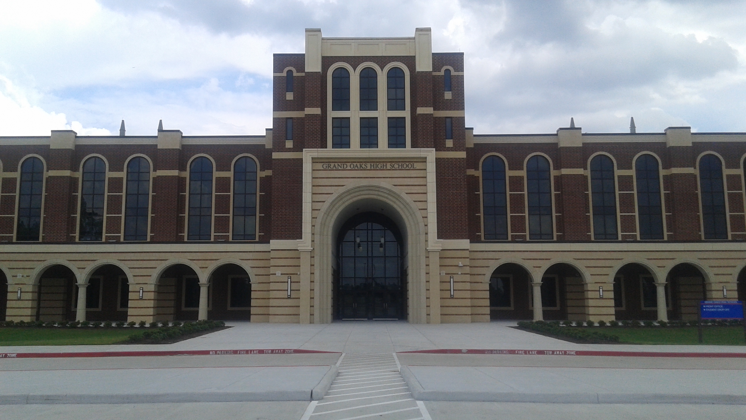 Grand Oaks High School, Conroe Independent School District. Located in unincorporated Montgomery County, Texas.